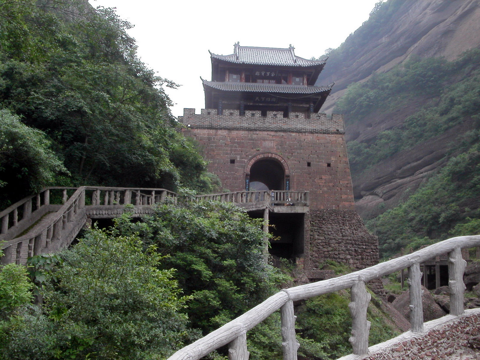 Jianmenguan, Jiange, Sichuan, China. Historical site of ancient fortress dates back to over 2000 years in Three Kingdom era. This is a recent construction.